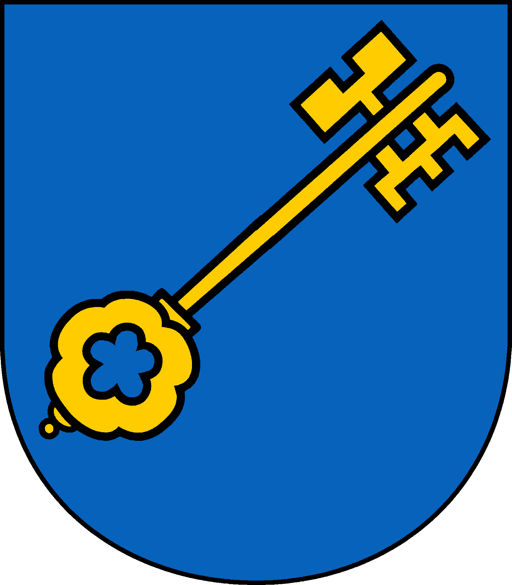 Coat of arms of the Amt (county) Ostholstein-Mitte in Schleswig-Holstein, Germany.